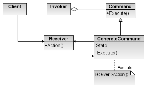 The UML diagram which describes the structure of the Command design pattern.